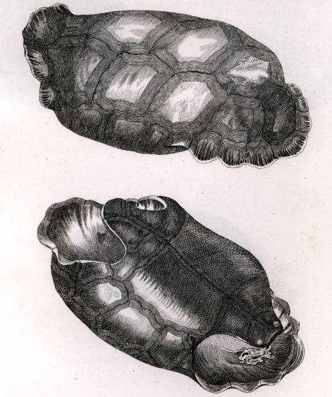 Engraving from Johann David Schoepf: Historia Testudinum iconibus illustrata (1792). It shows the carapace of the Saddle-backed Rodrigues Giant Tortoise (Cylindraspis vosmaeri = Testudo Indica Vosmaer).